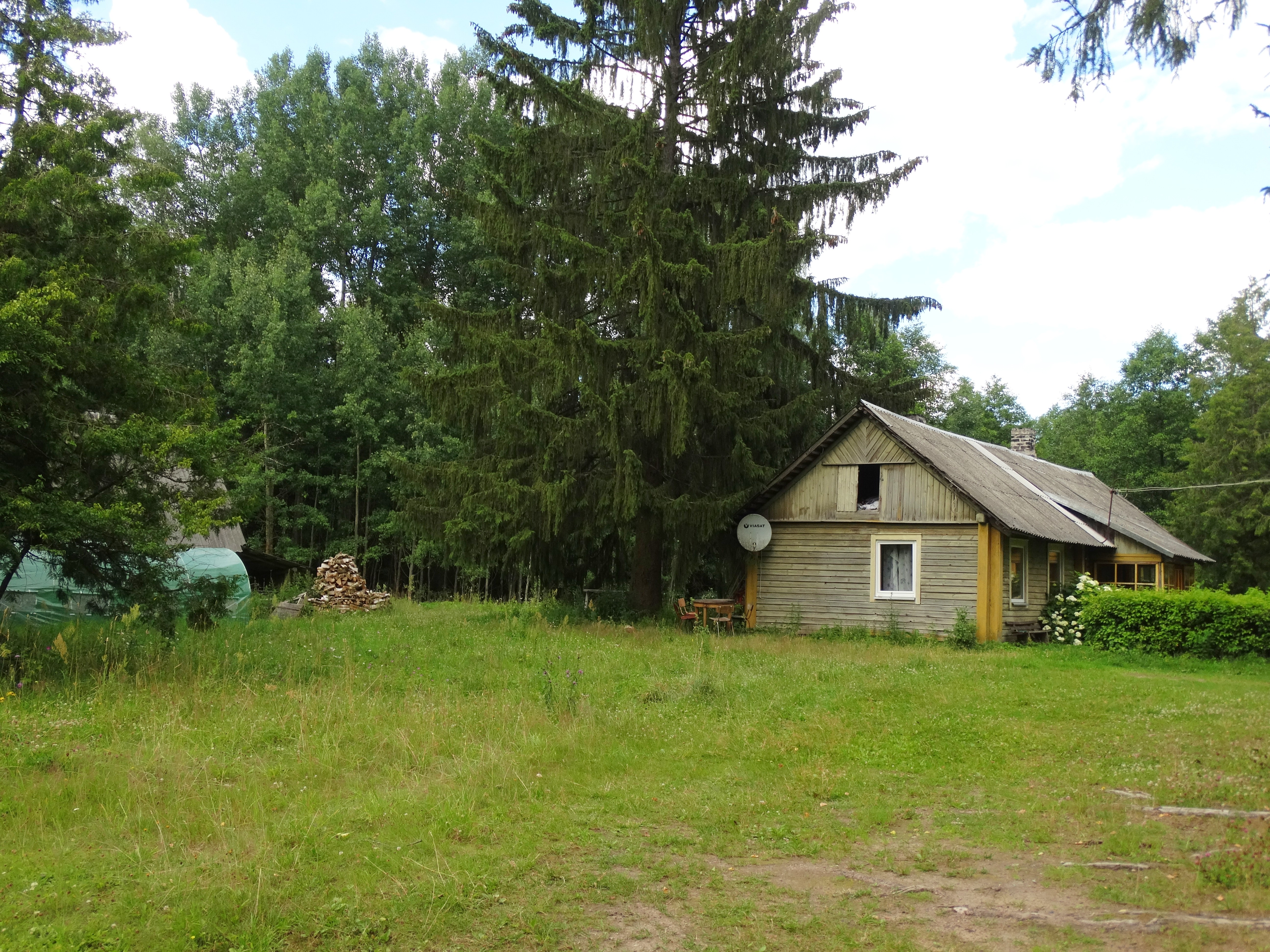 Januliškis, Švenčionys District, Lithuania